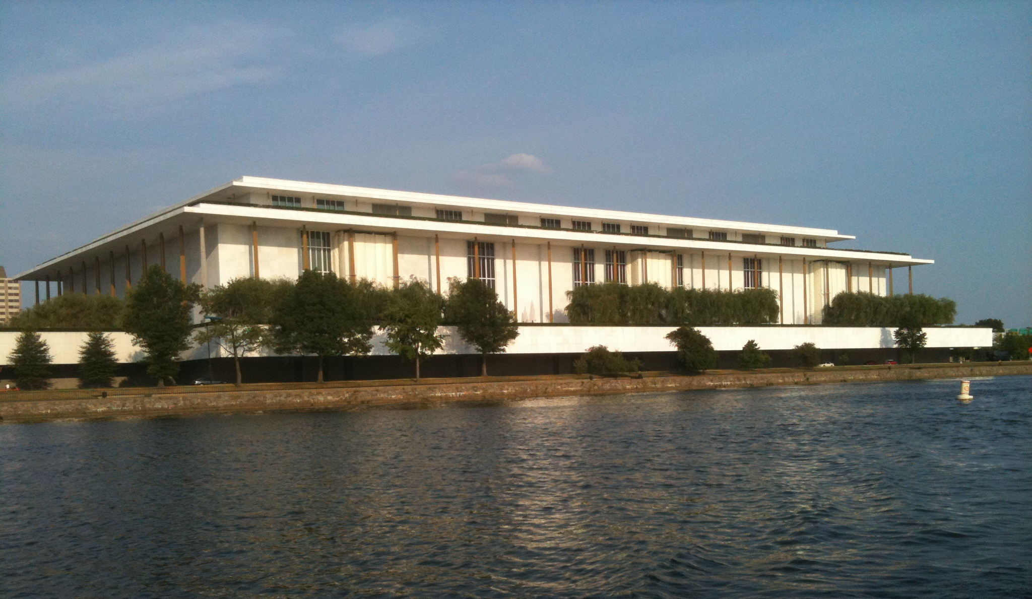 Kennedy Center seen from the Potomac River.